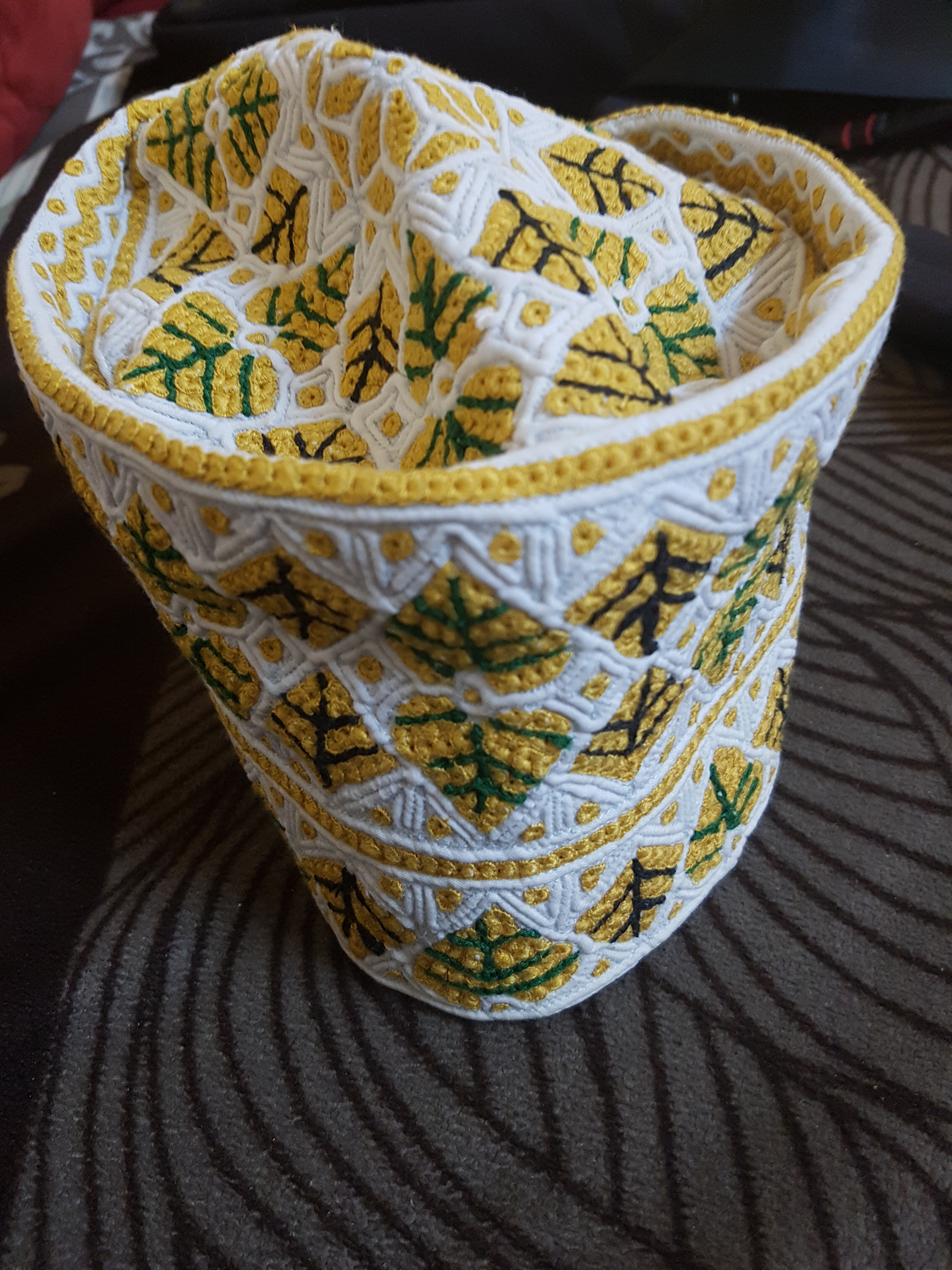 كمة منقوشة بخيوط متنوعه